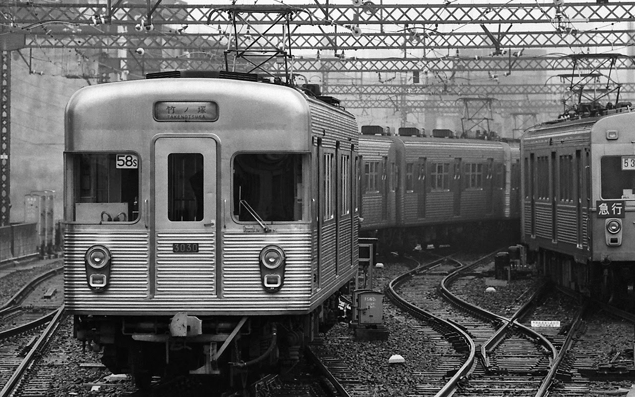 TRTA 3000 series EMU set 3030 at Naka-Meguro after arriving on a Hibiya Line through working